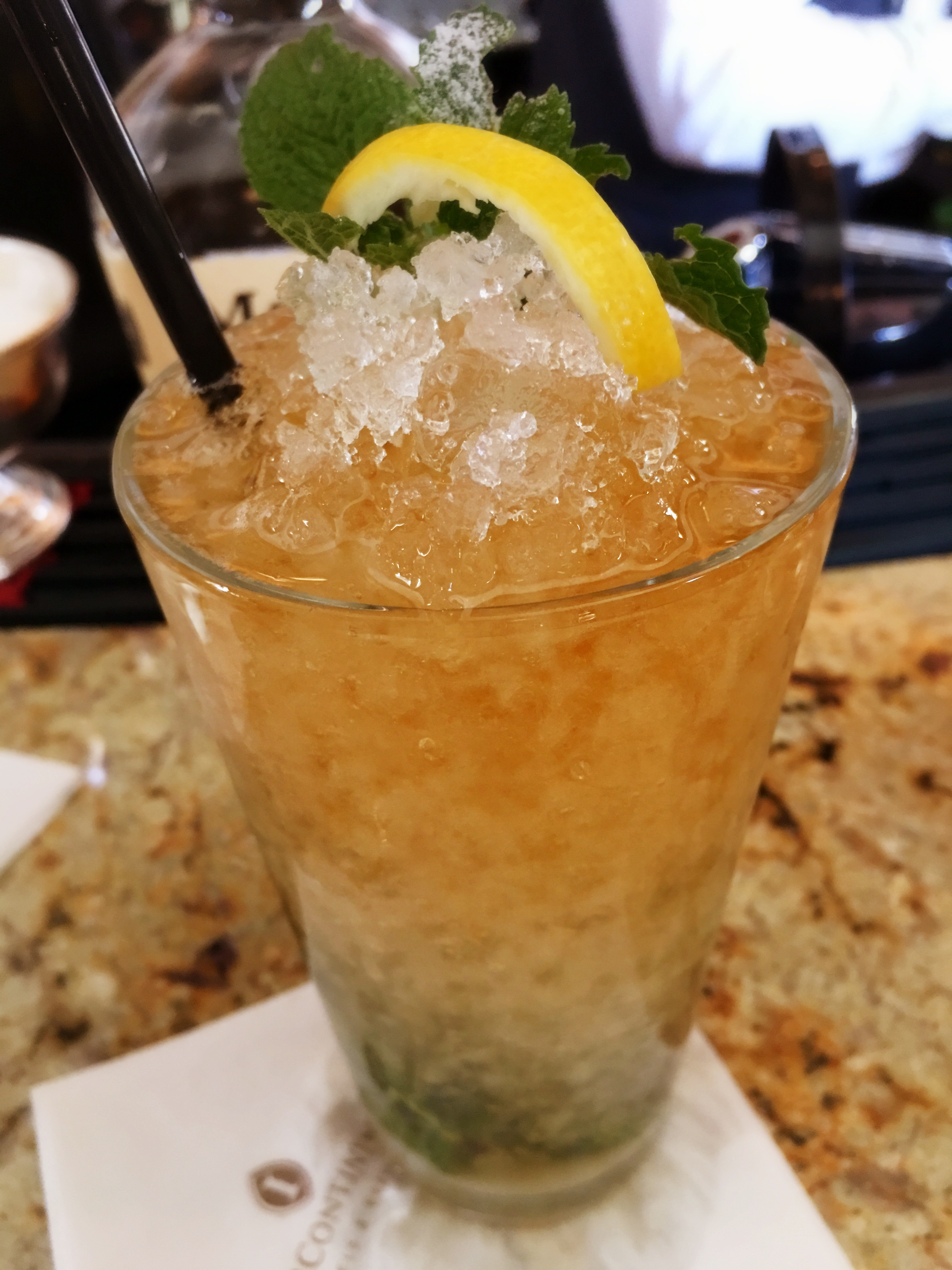 A Mint Julep made by Jim Hewes at the Round Robin Bar in Washington, DC.